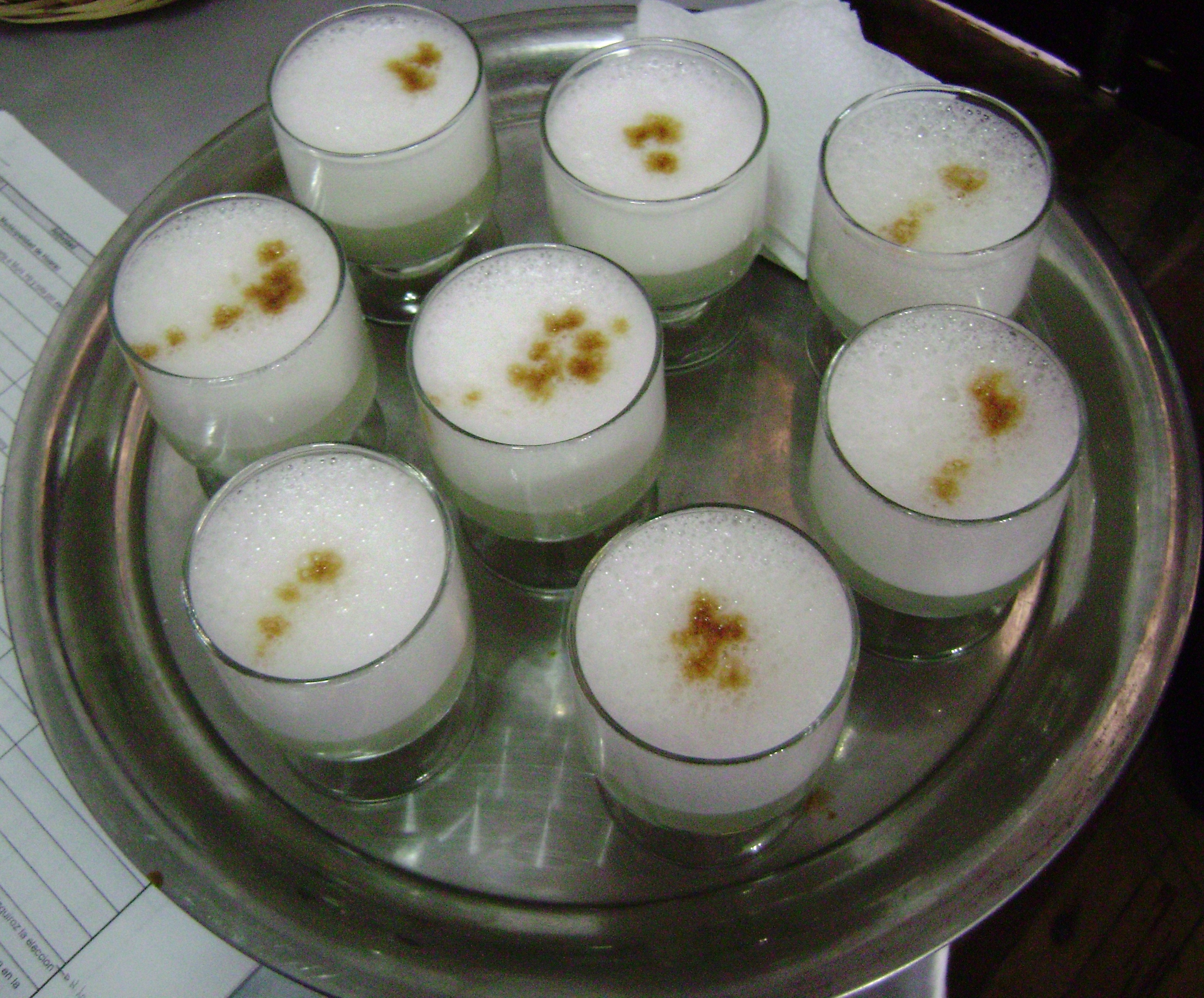 Pisco sour cups handed on a plate for a buffet.